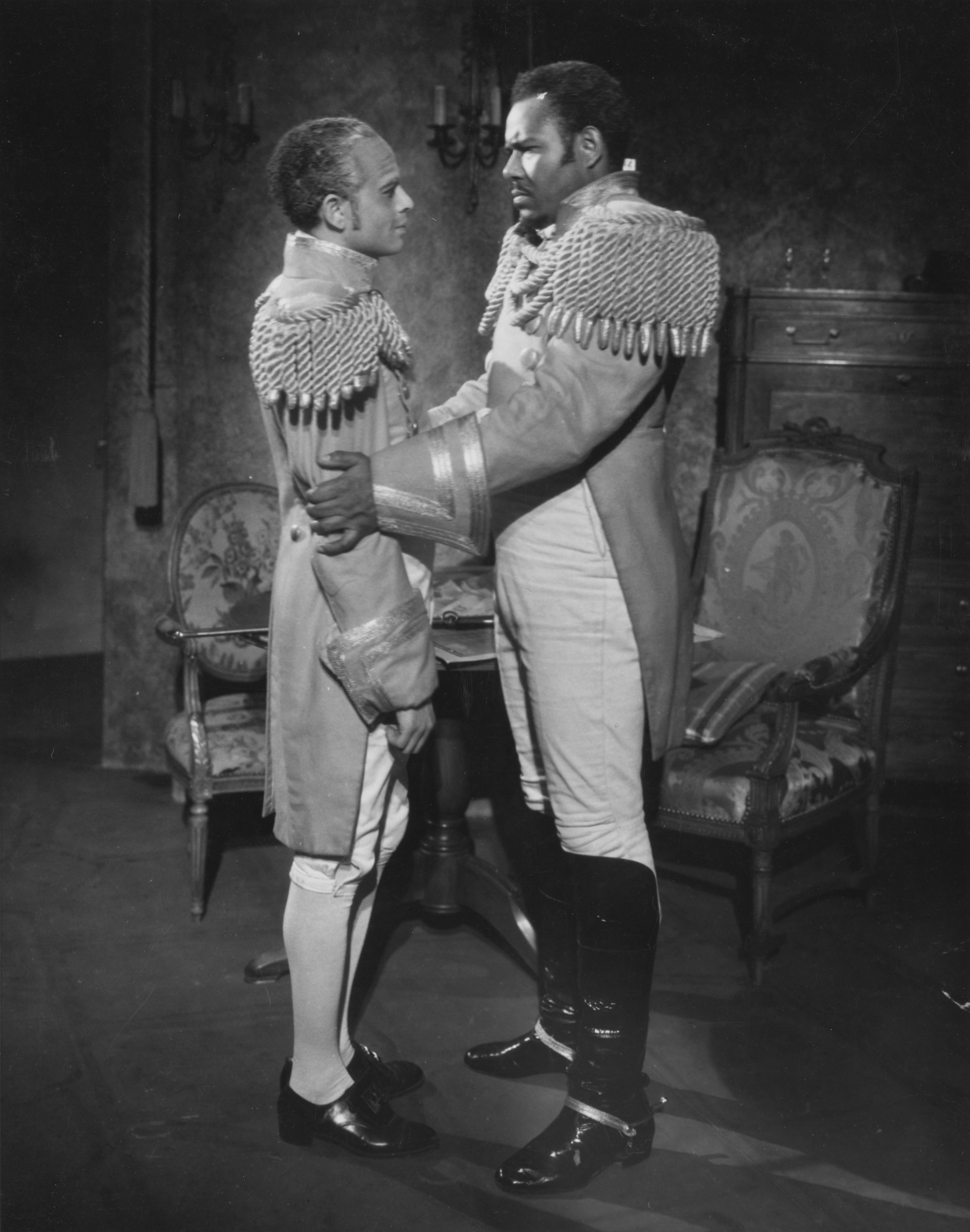 Photograph of a scene from the Federal Theatre Project production of Haiti at the Lafayette Theatre From left, Alvin Childress (Jacques) and Rex Ingram (Christophe)